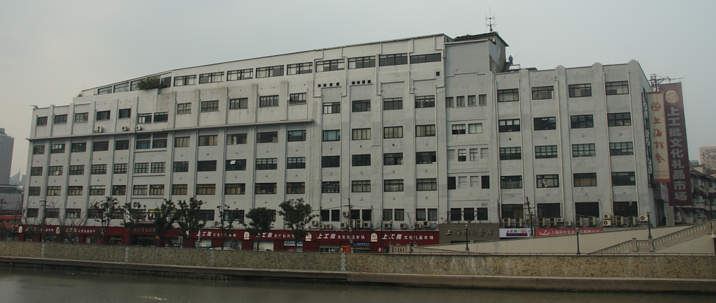 Sihang warehouse nowaday